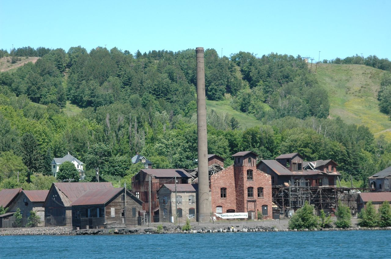 Old industrial buildings in Houghton, Michigan, Upper Peninsula. Quincy Smelter, a copper smelter in use from 1898-1971 in Franklin Township, Houghton County